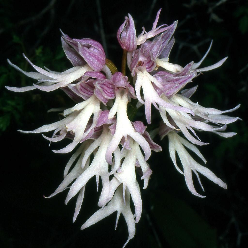 Orchis italica